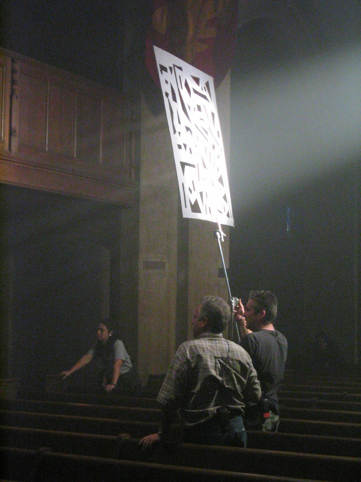 Crew members altering the natural light into one of the buildings for a scene of National Treasure (2004)